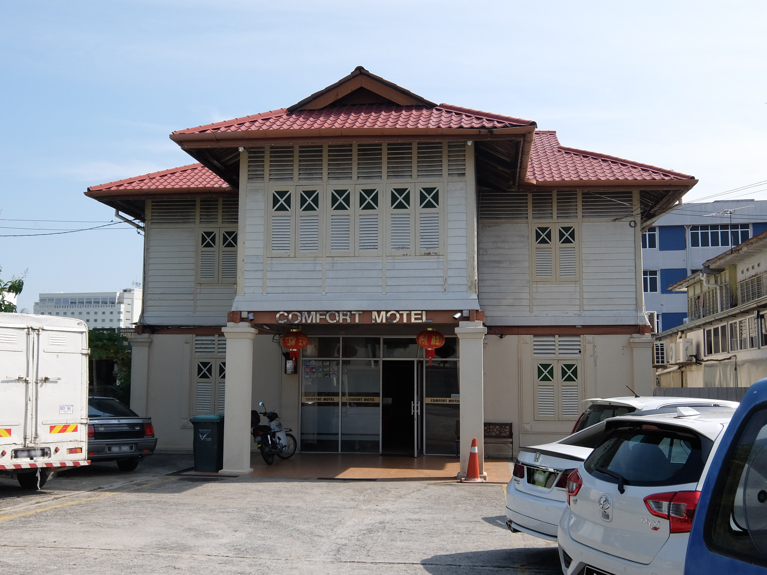 Comfort Motel, Alor Setar, Kota Setar, Kedah, Malaysia